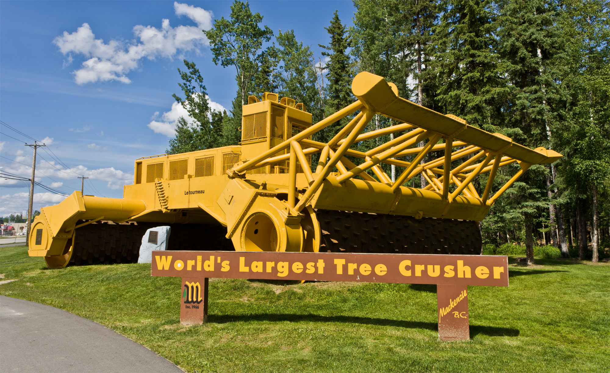 World's largest tree crusher (model G175, manufactured by LeTourneau in the 1950s or early 1960s), a tourist attraction on on Mackenzie Boulevard, Mackenzie, BC, Canada